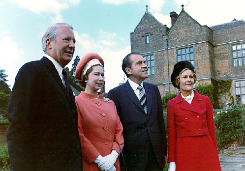 Queen Elizabeth II of the United Kingdom and Prime Minister Edward Heath are joined by U.S. President Richard Nixon and First Lady Pat Nixon during the Nixons' visit to the United Kingdom